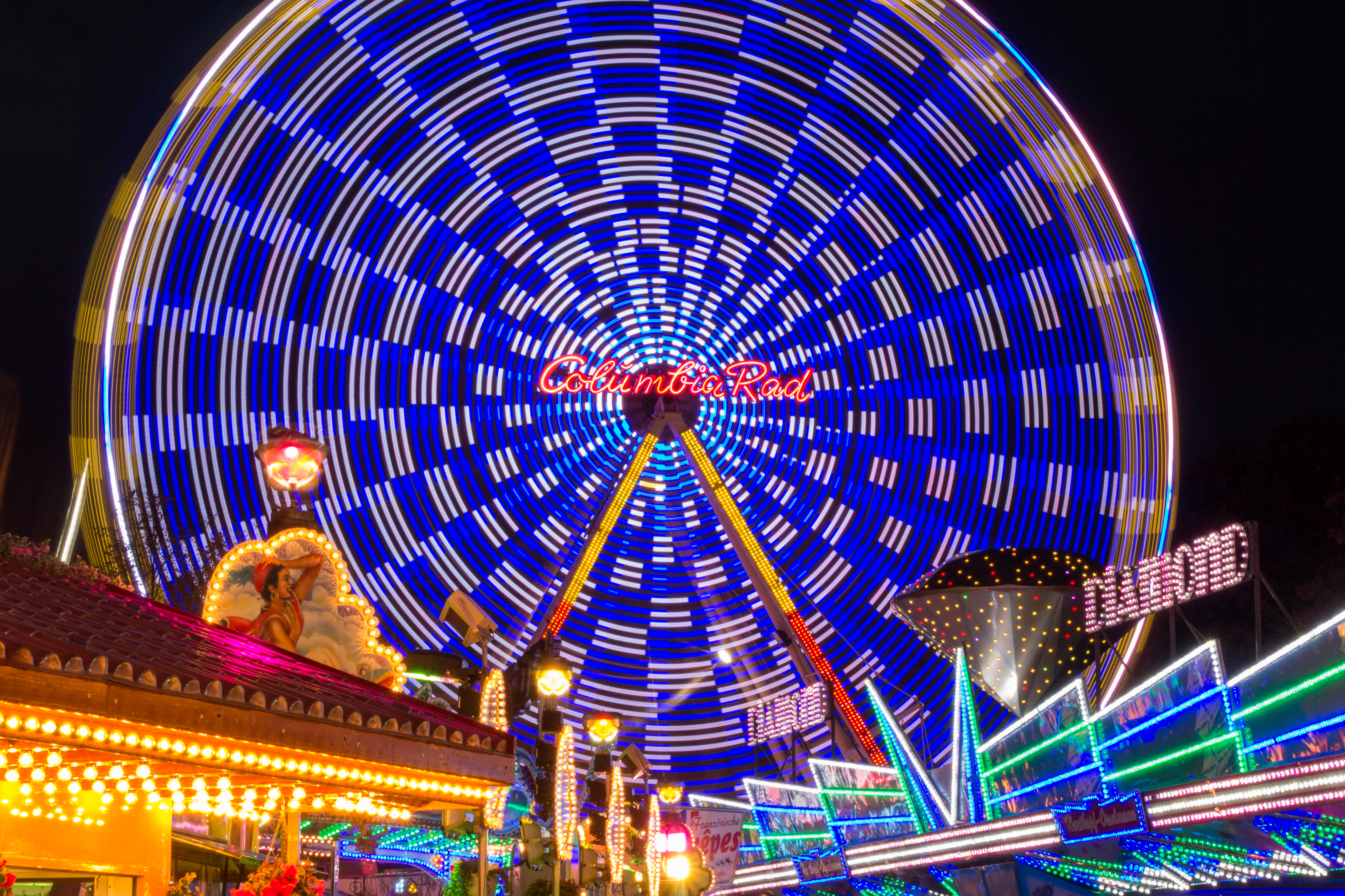 Light traces of a ferris wheel, Viktorkirmes in Dülmen, North Rhine-Westphalia, Germany